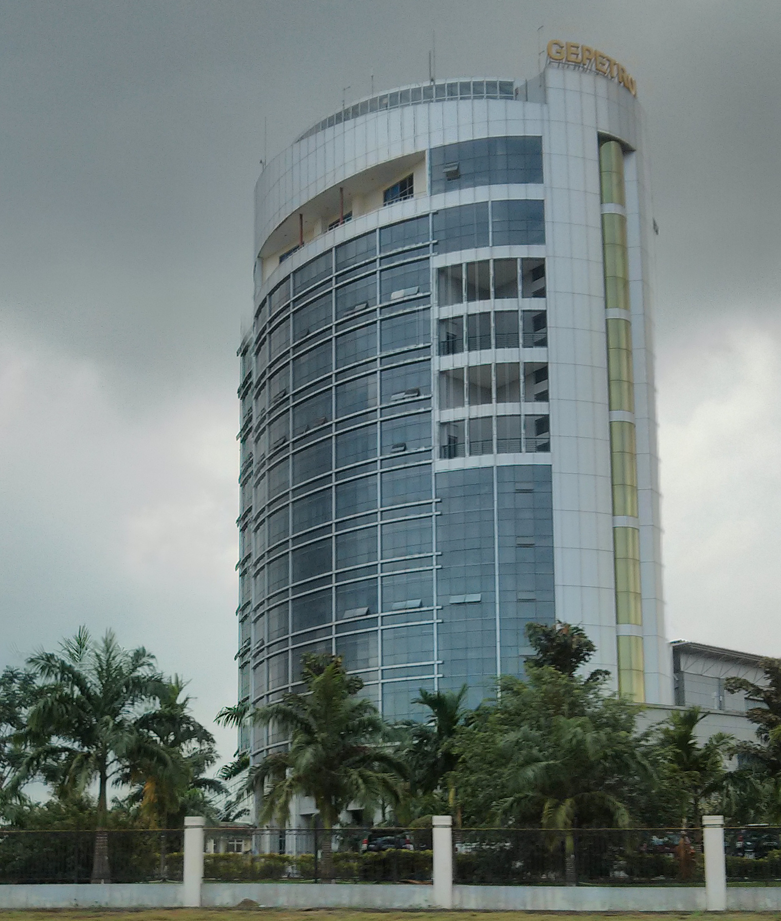 Headquarteres of Gepetrol in Malabo Dos. Gepetrol is the national oil company of Equaturial Guinea